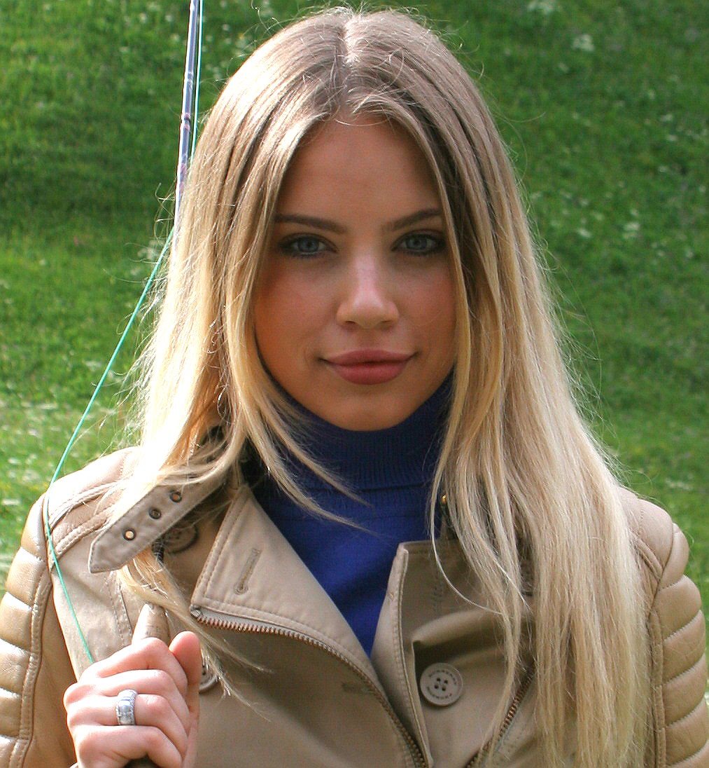 Xenia Tchoumitcheva fishing in Leukerbad, Switzerland June 2011